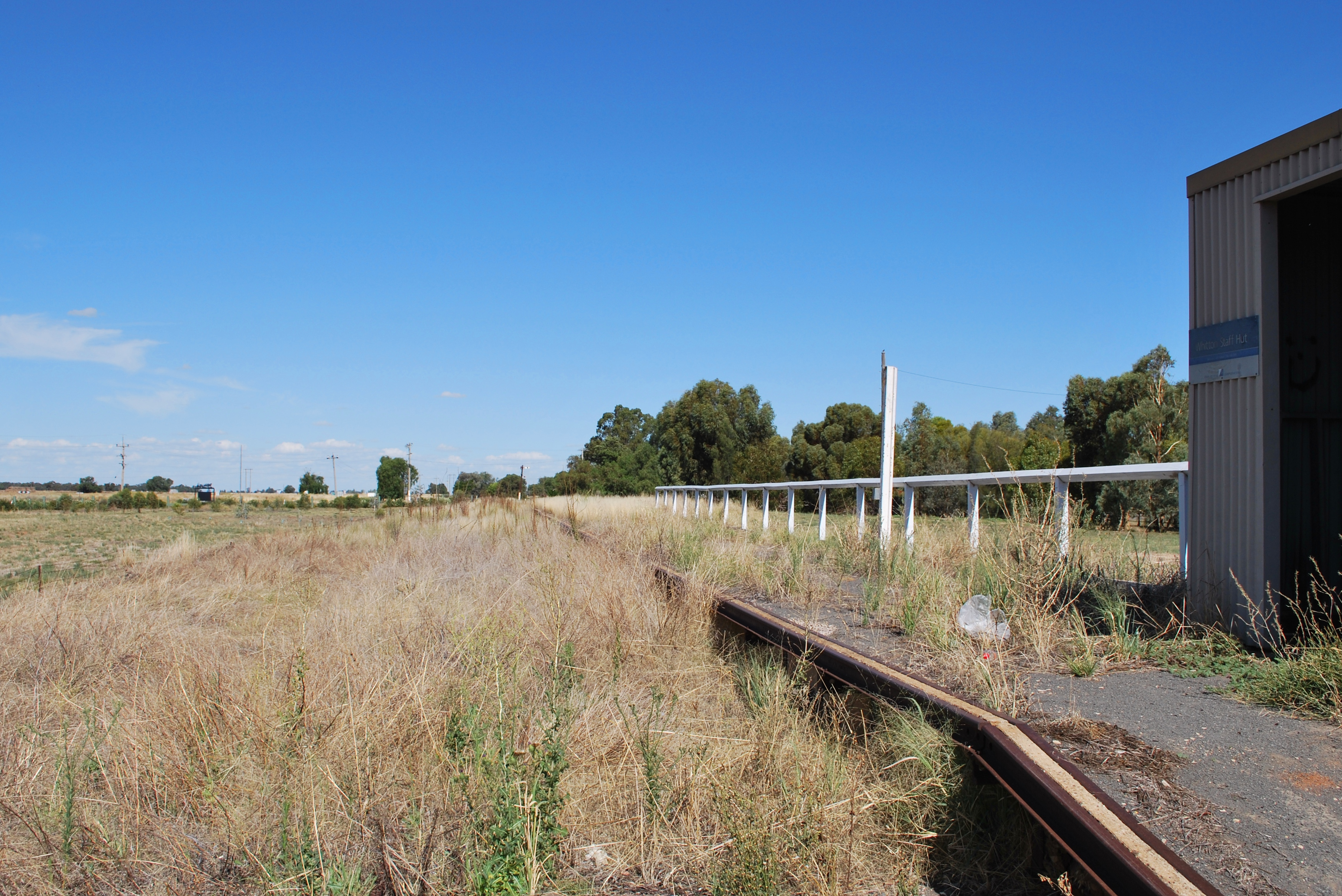 The remains of the railway platform at Whitton, New South Wales